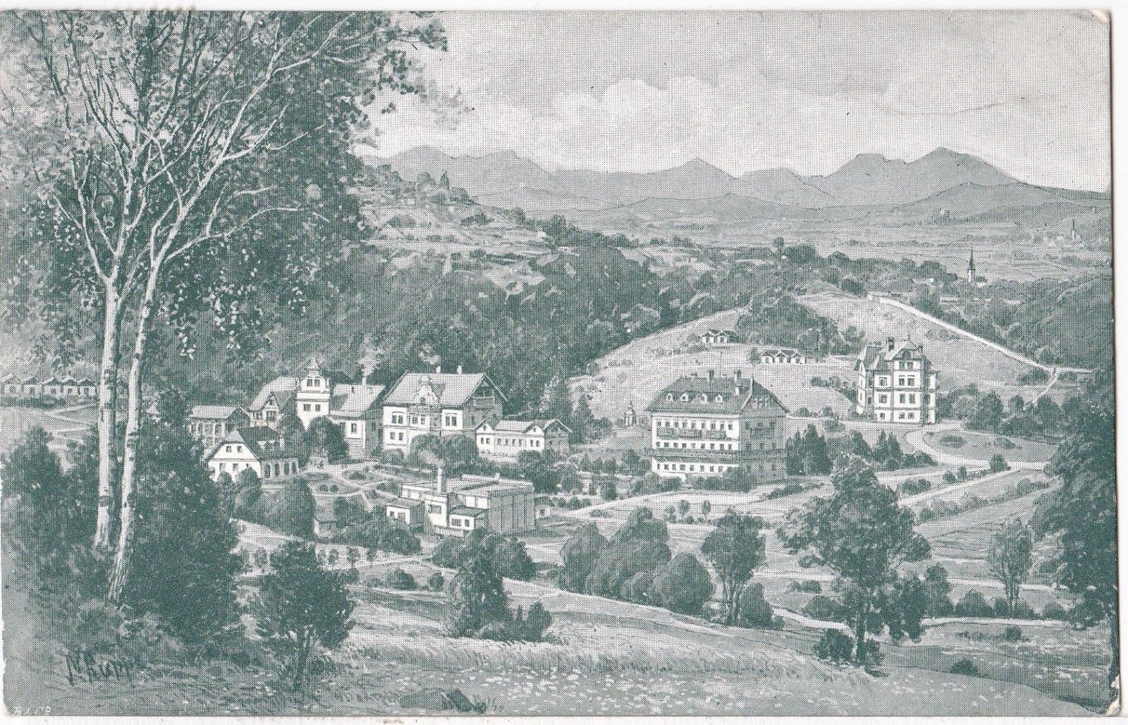 Postcard of Topolšica.